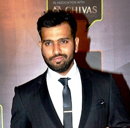 Rohit Sharma at the GQ Men of the Year Awards 2015 at Mumbai.